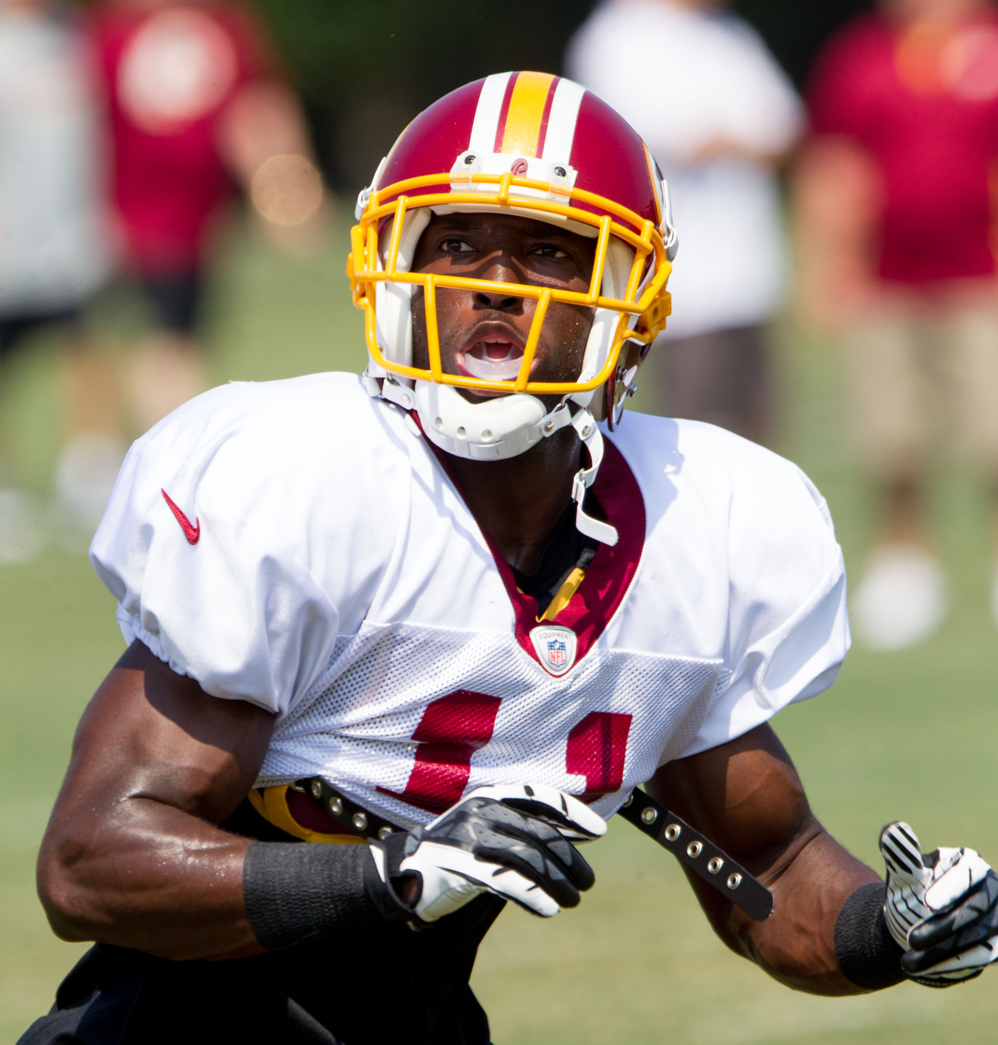 Aldrick Robinson at Washington Redskins Training Camp August 1, 2012